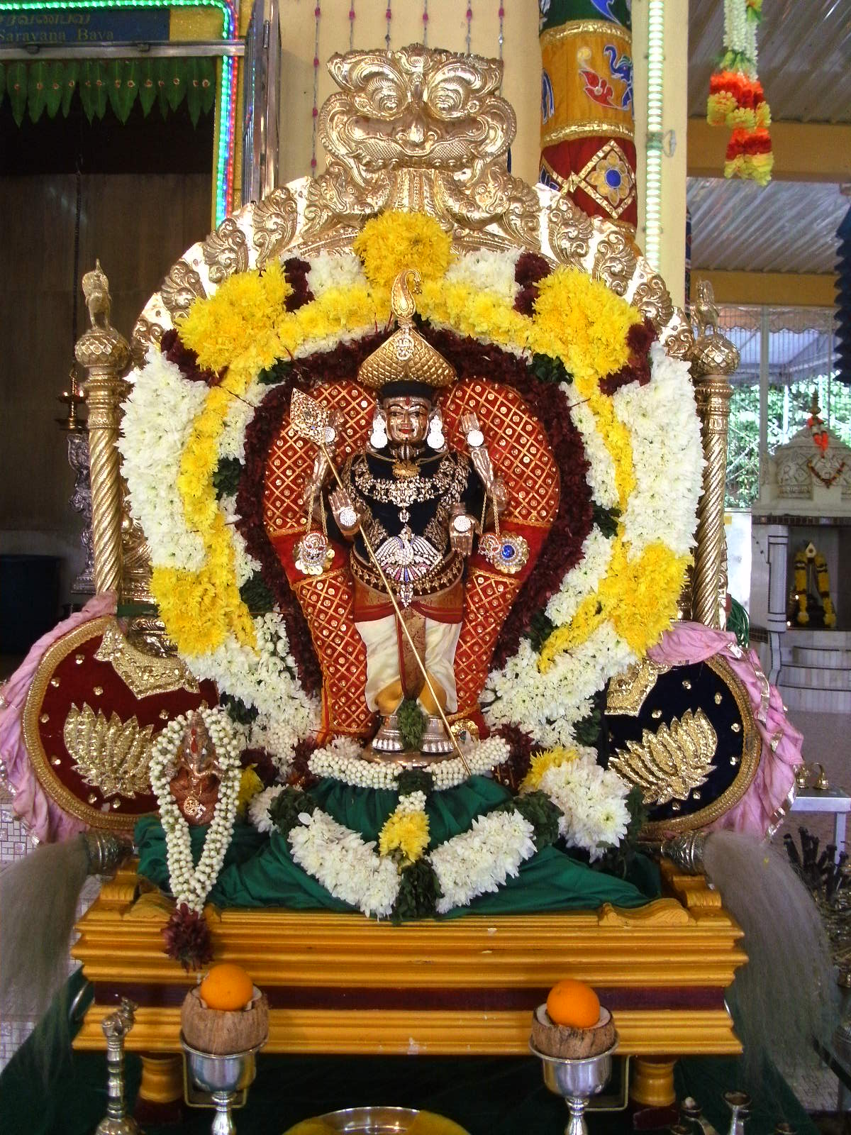 Chithraparuvam Lord Subramaniyaswami.